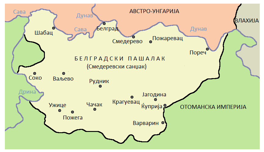 Map of Belgrade pashaluk in Macedonian.